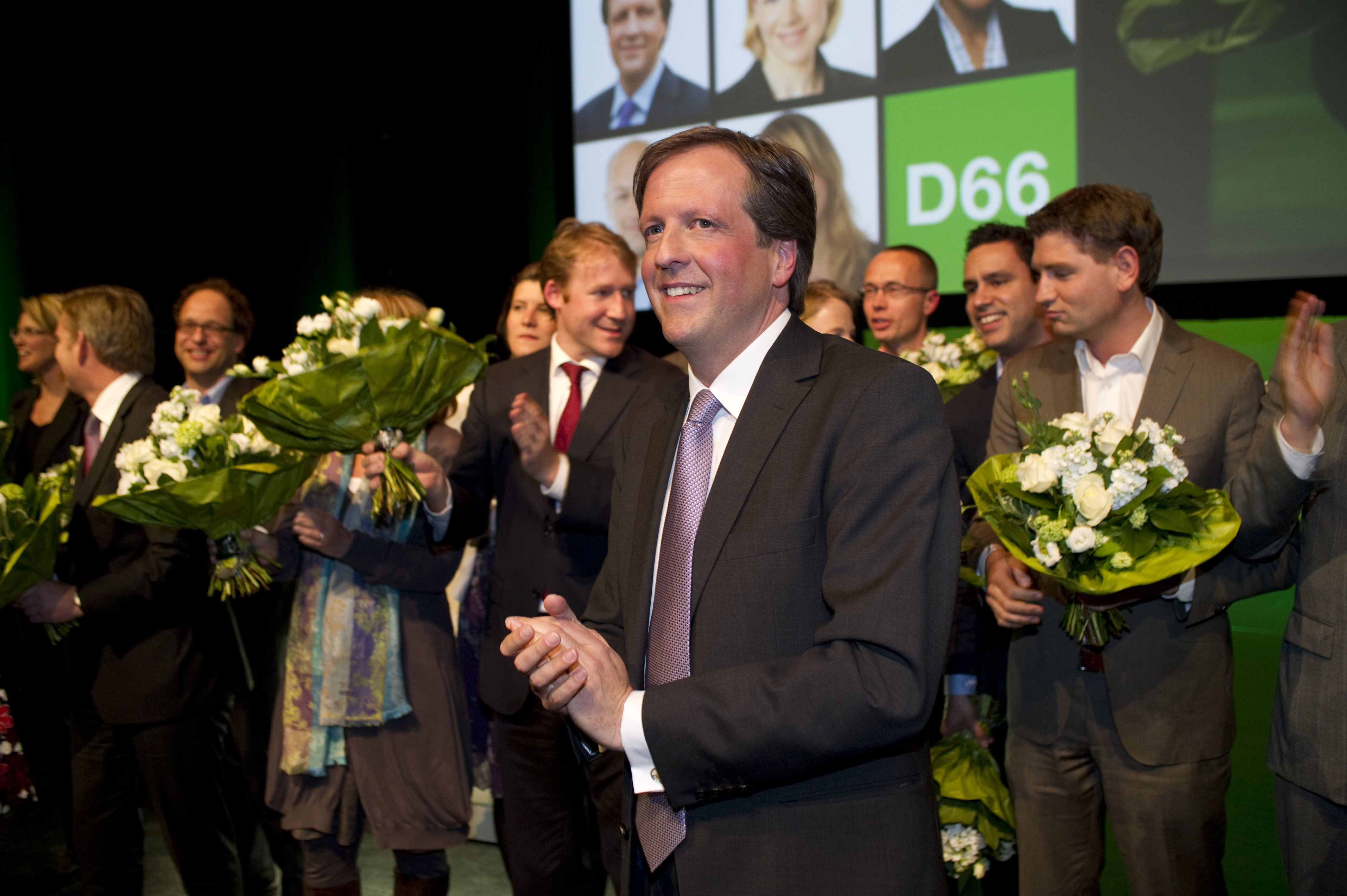 Picture from D66. Alexander Pechtold, with candidates for the 2010 national elections. National party congress.